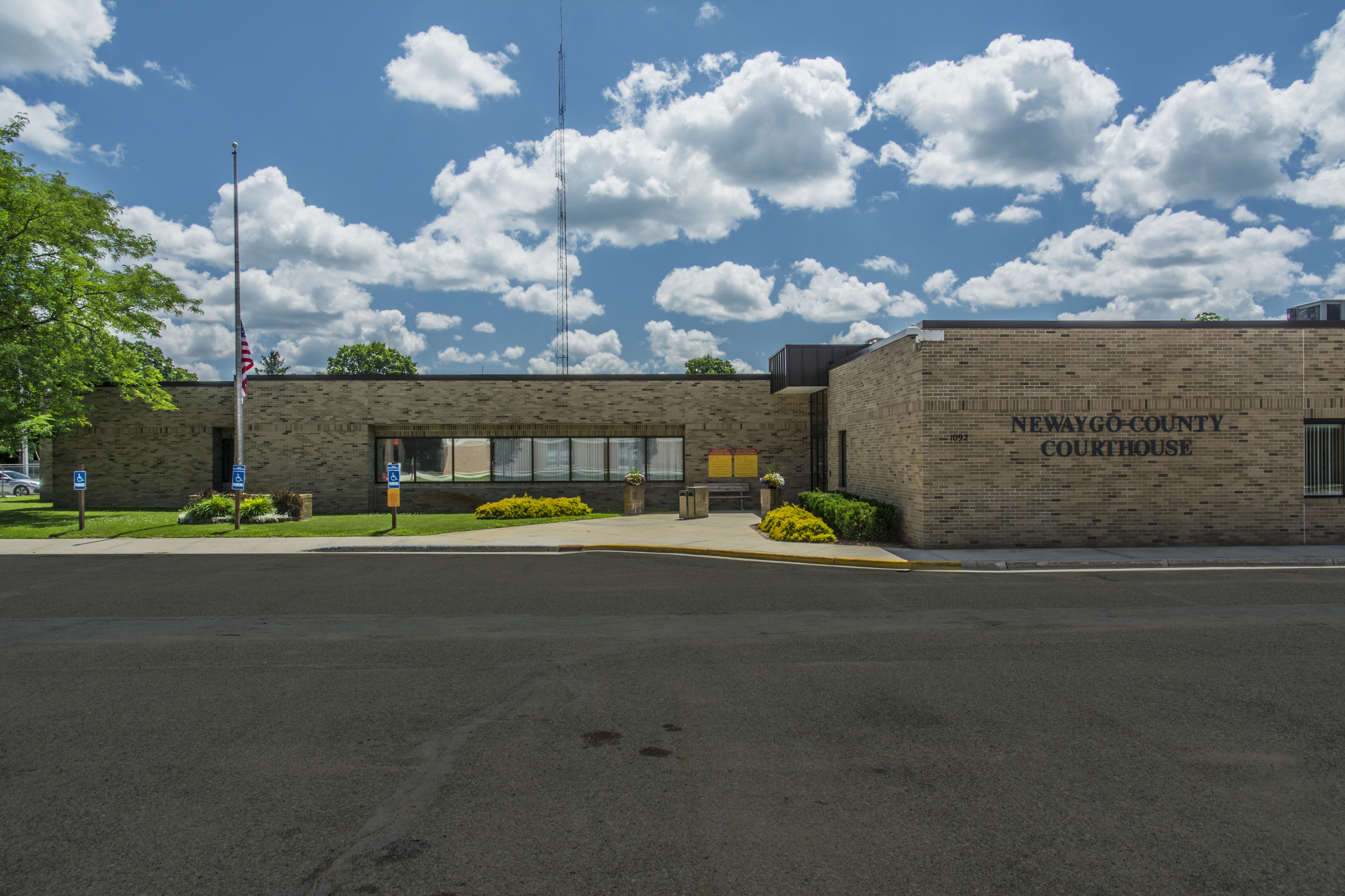 Newago County Michigan Courthouse (White Cloud)